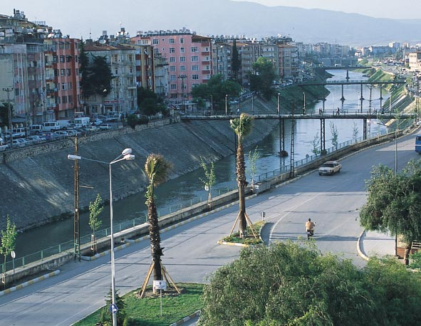 Antakya